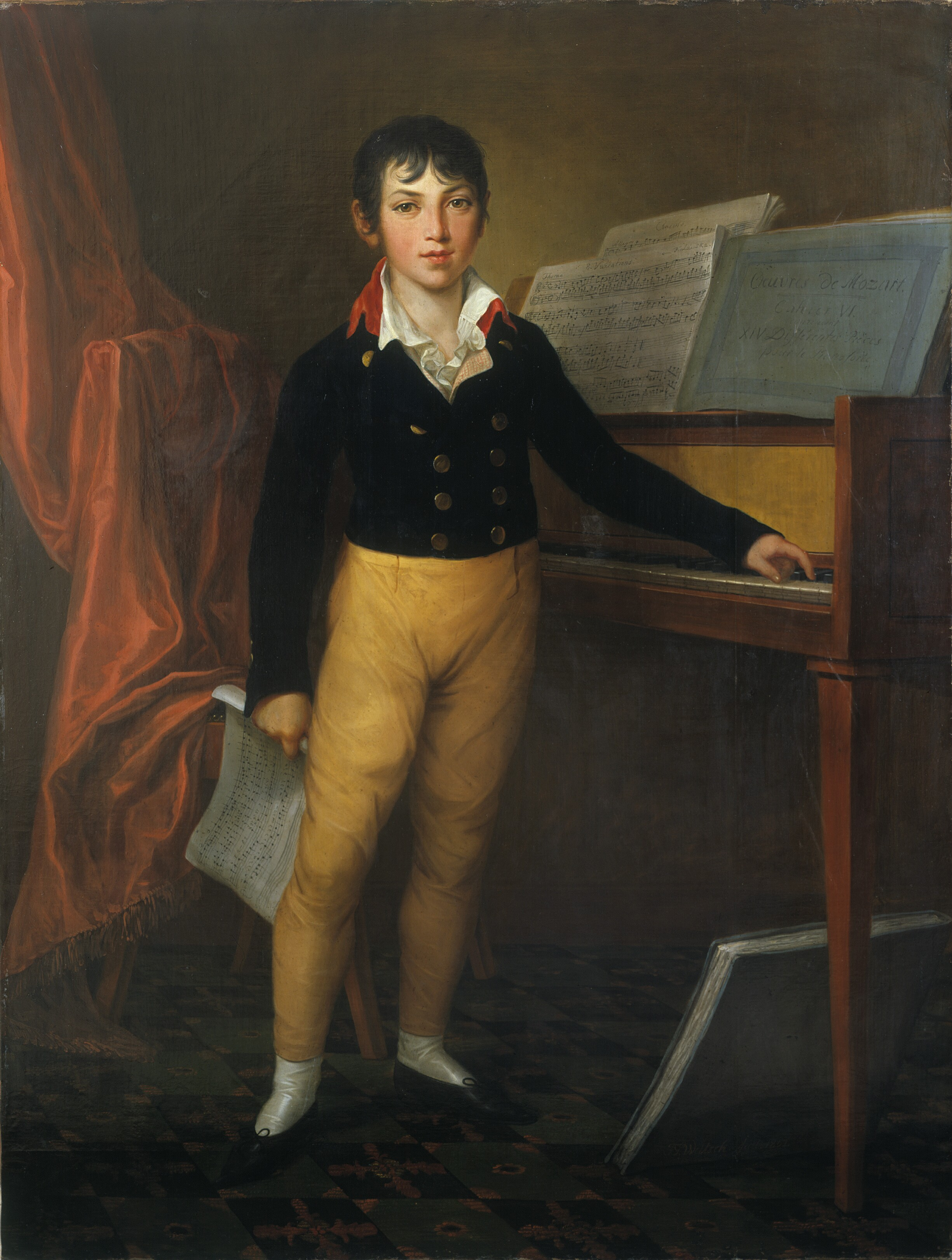 Portrait of Meyer Beer (Giacomo Meyerbeer), age 11 (1803)